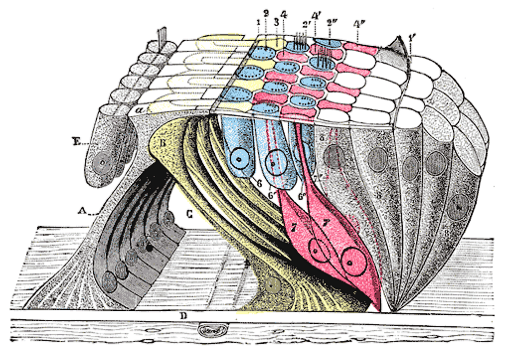 Organ of Corti: The lamina reticularis and subjacent structures. (Schematic.) A. Internal rod of Corti, with a, its plate. B. External rod (in yellow). C. Tunnel of Corti. D. Membrana basilaris. E. Inner hair cells. 1, 1’. Internal and external borders of the membrana reticularis. 2, 2’, 2”. The three rows of circular holes (in blue). 3. First row of phalanges (in yellow). 4, 4’, 4”. Second, third, and fourth rows of phalanges (in red). 6, 6’, 6”. The three rows of outer hair cells (in blue). 7, 7’, 7”. Cells of Deiters. 8. Cells of Hensen and Claudius. (Testut.